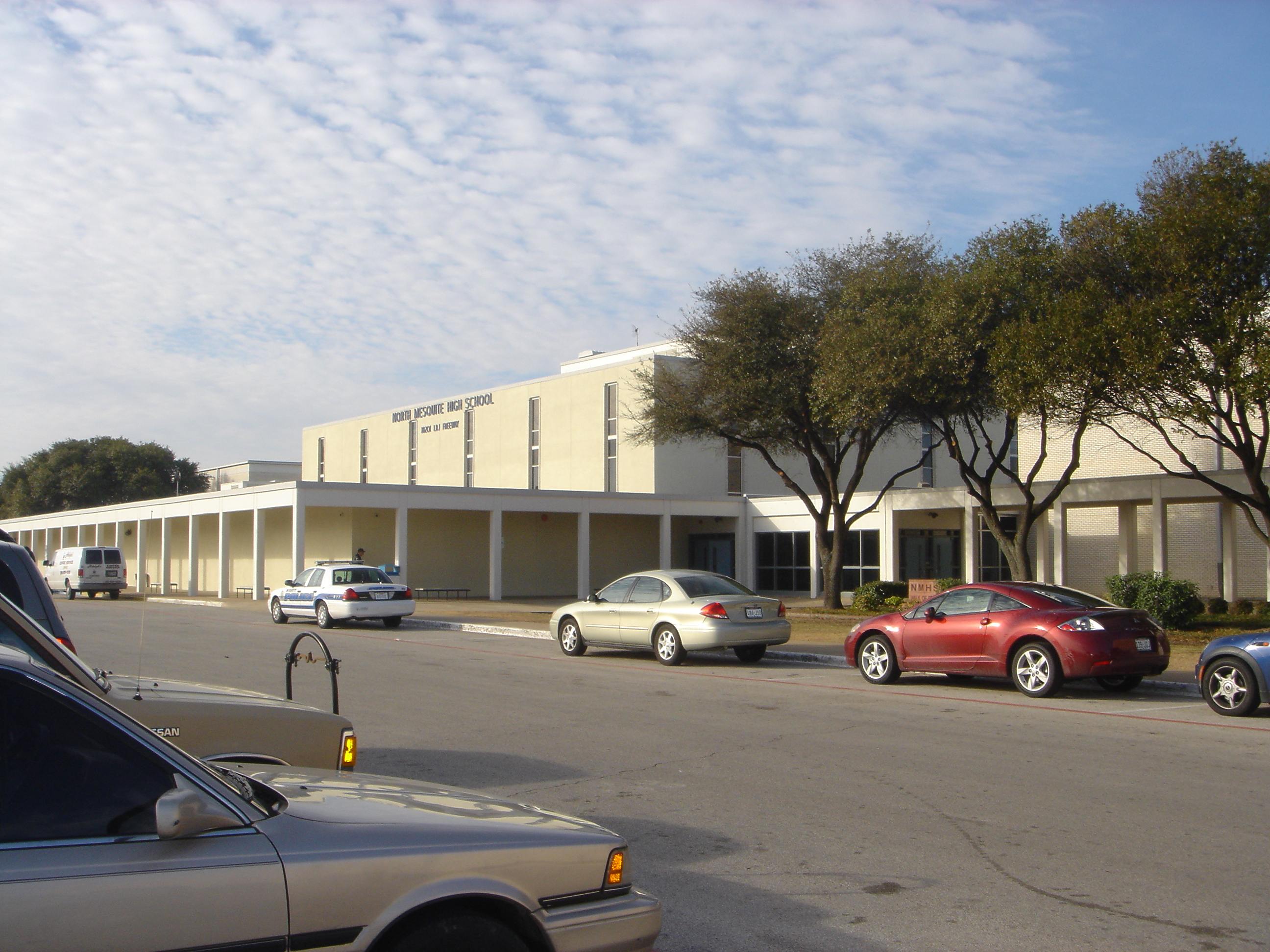 North Mesquite High School in 2006, before 2009 renovation.